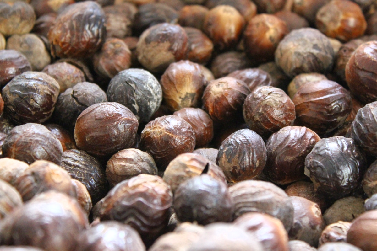 Nutmeg seeds